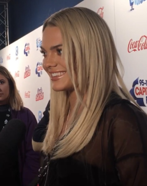 Louisa Johnson backstage at The O2 Arena before Capital's Jingle Bell Ball in December 2017.